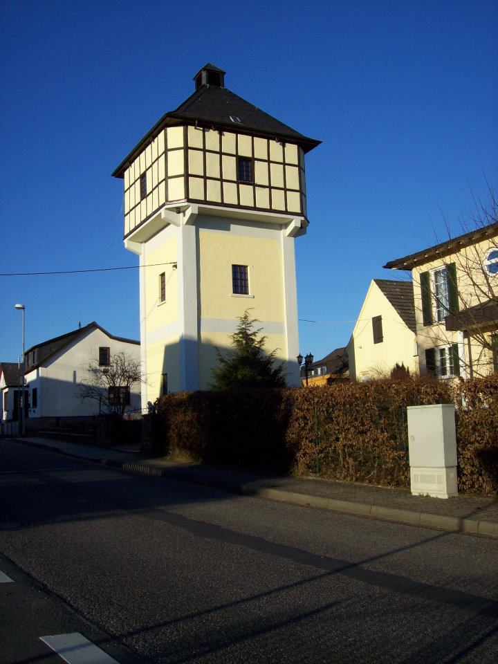 The famous Grossmaischeid Wasserturm